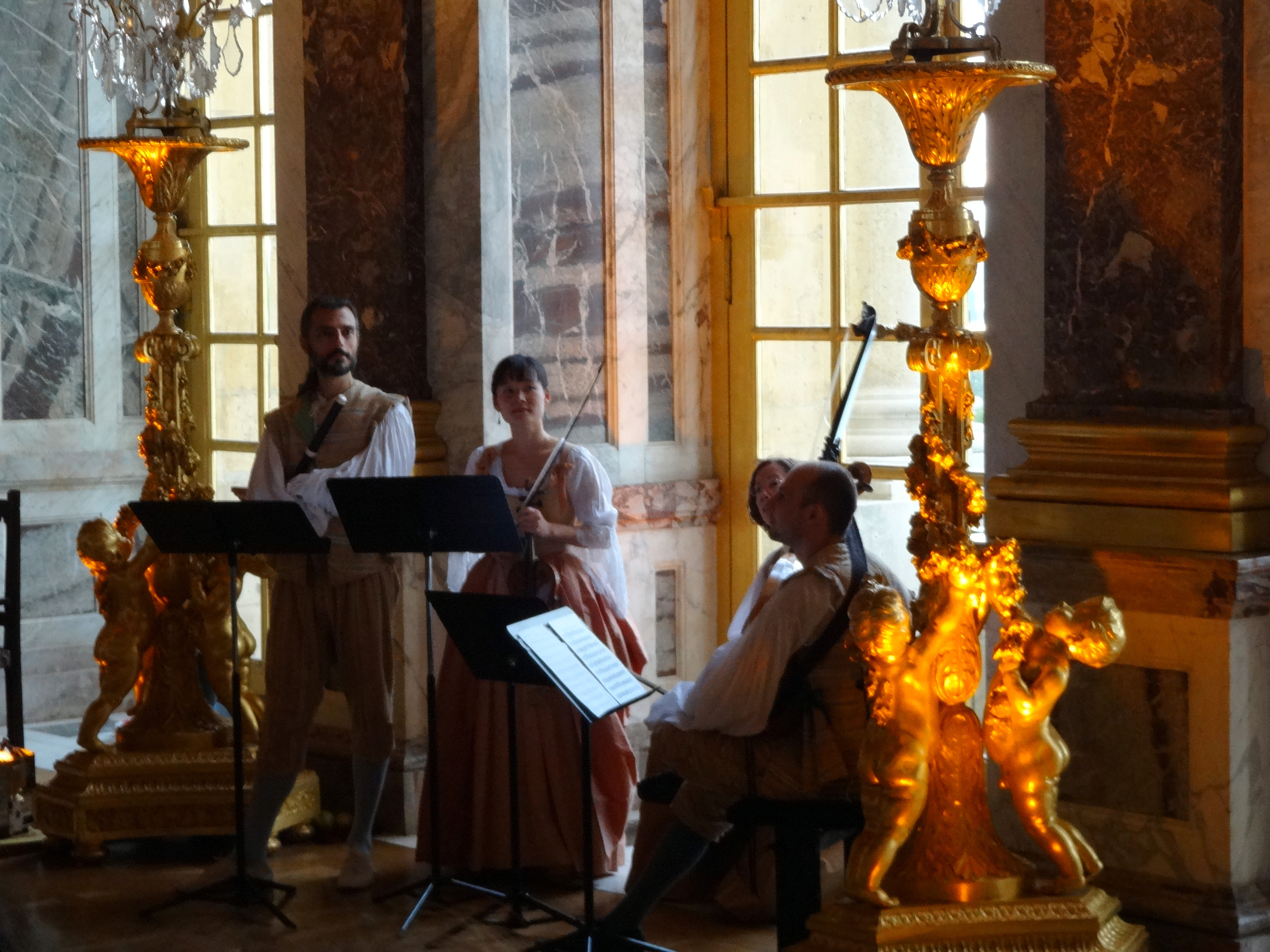 Les Musiciens de Saint-Julien playing in at the Palace of Versailles .